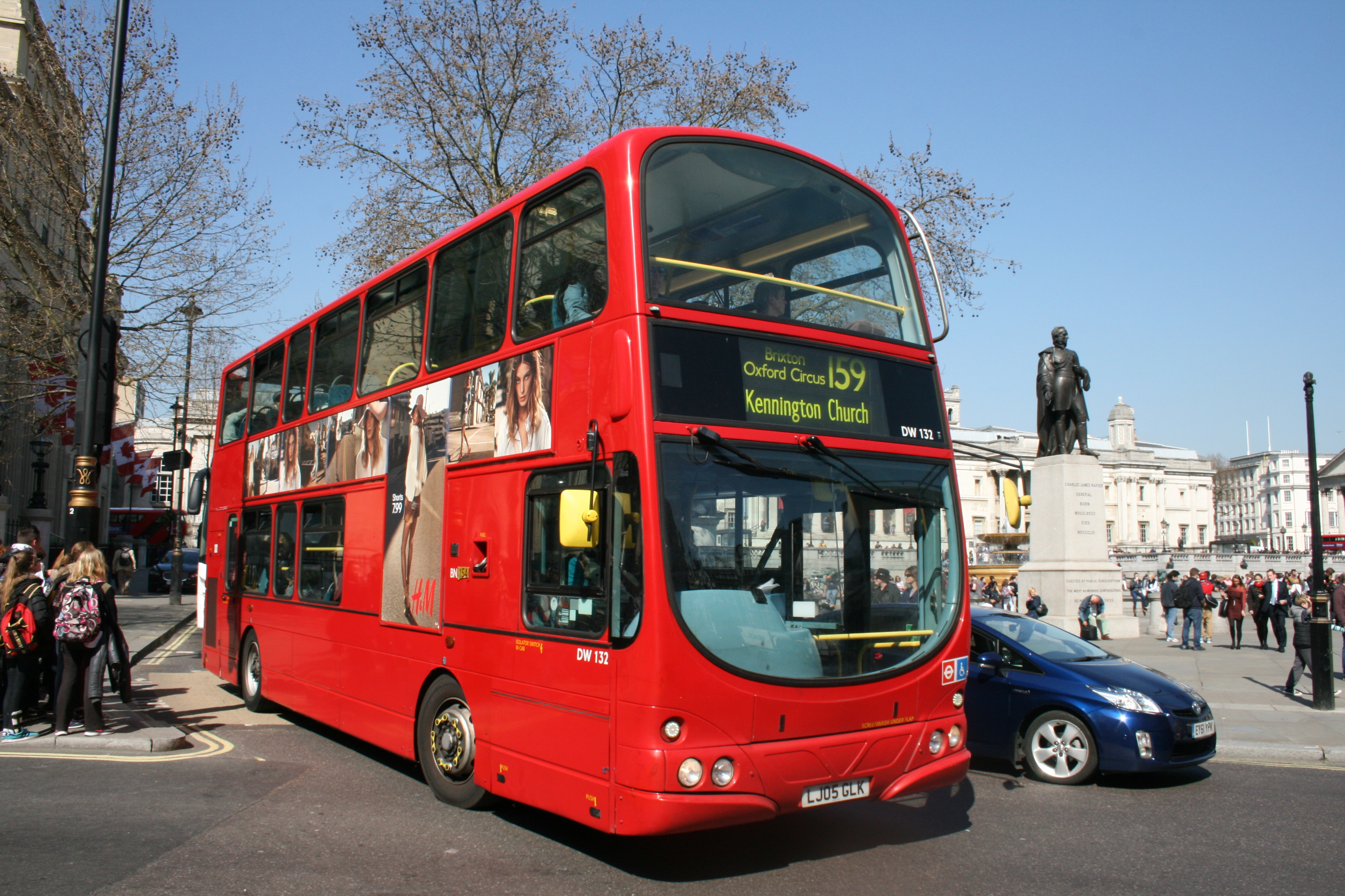 Arriva London DW132 (LJ05 GLK) on Route 159, Trafalgar Square